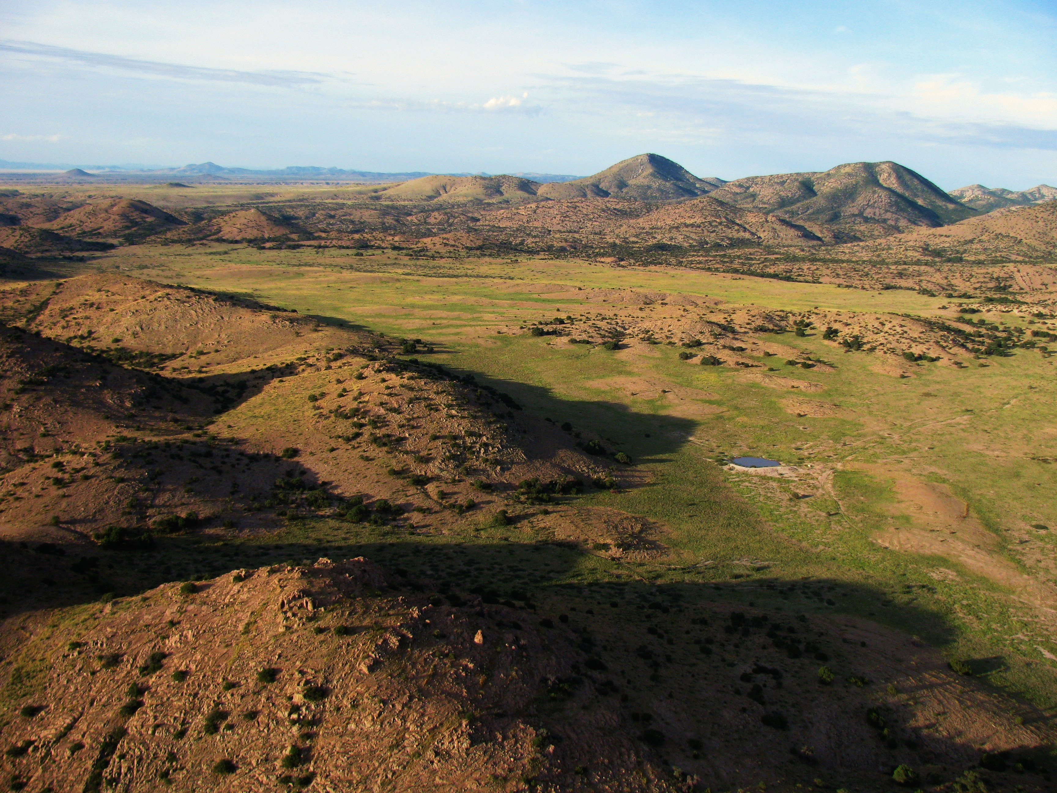 A low level aerial photograph of Mt. Baldy and Black Mountain across Maternity Meadow from Animas Valley in the Peloncillo Mountains (Hidalgo County) of southwestern New Mexico.